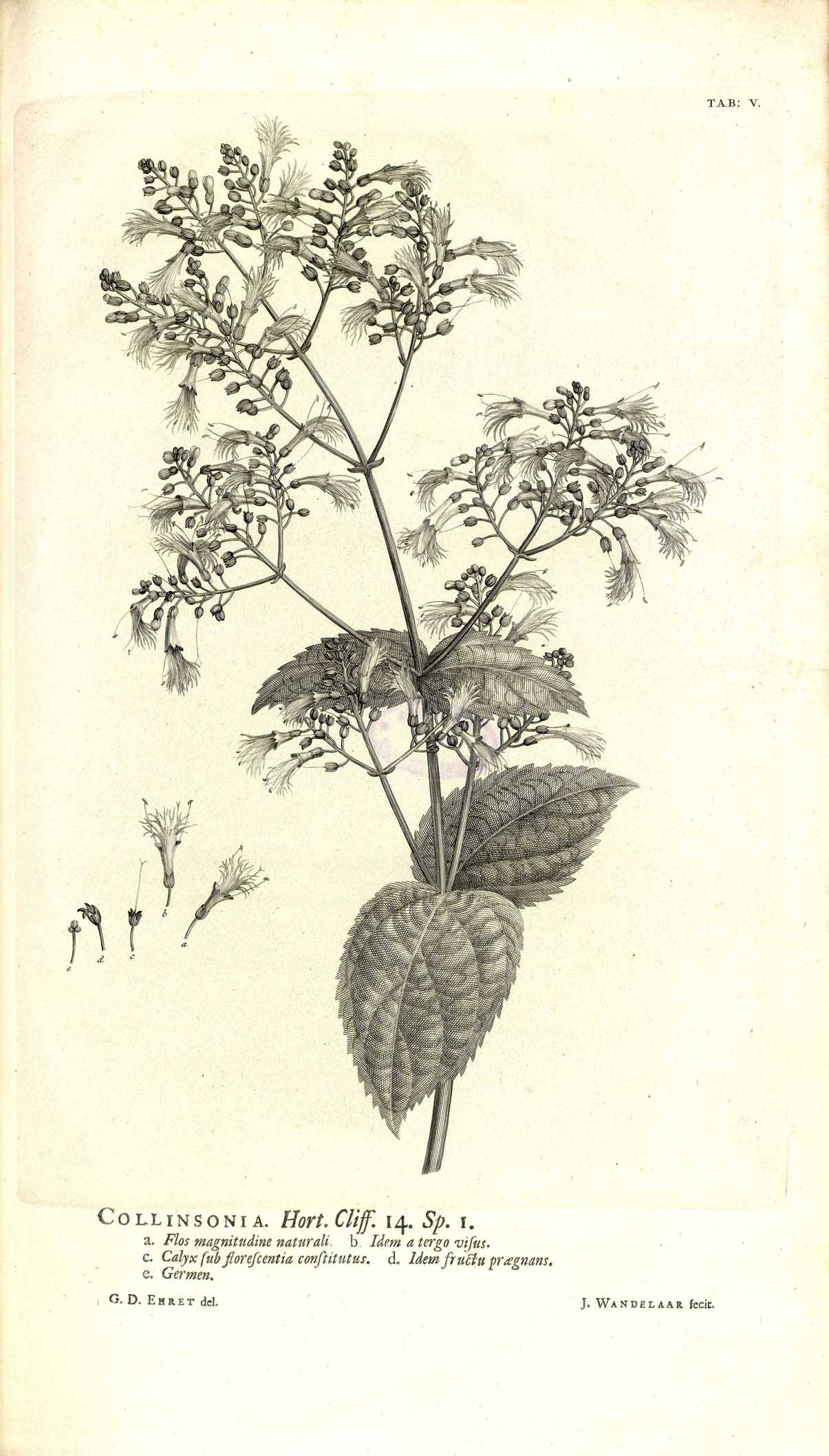 Linnaeus, C. (1738), Hortus Cliffortianus, plate V, Collinsonia, drawn by Georg Dionysius Ehret and engraved by Jan Wandelaar.